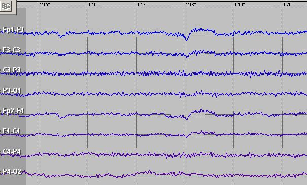 EEG beta activity